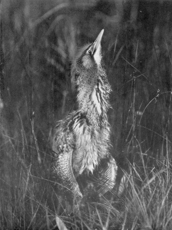 Eurasian Bittern (Botaurus stellaris)